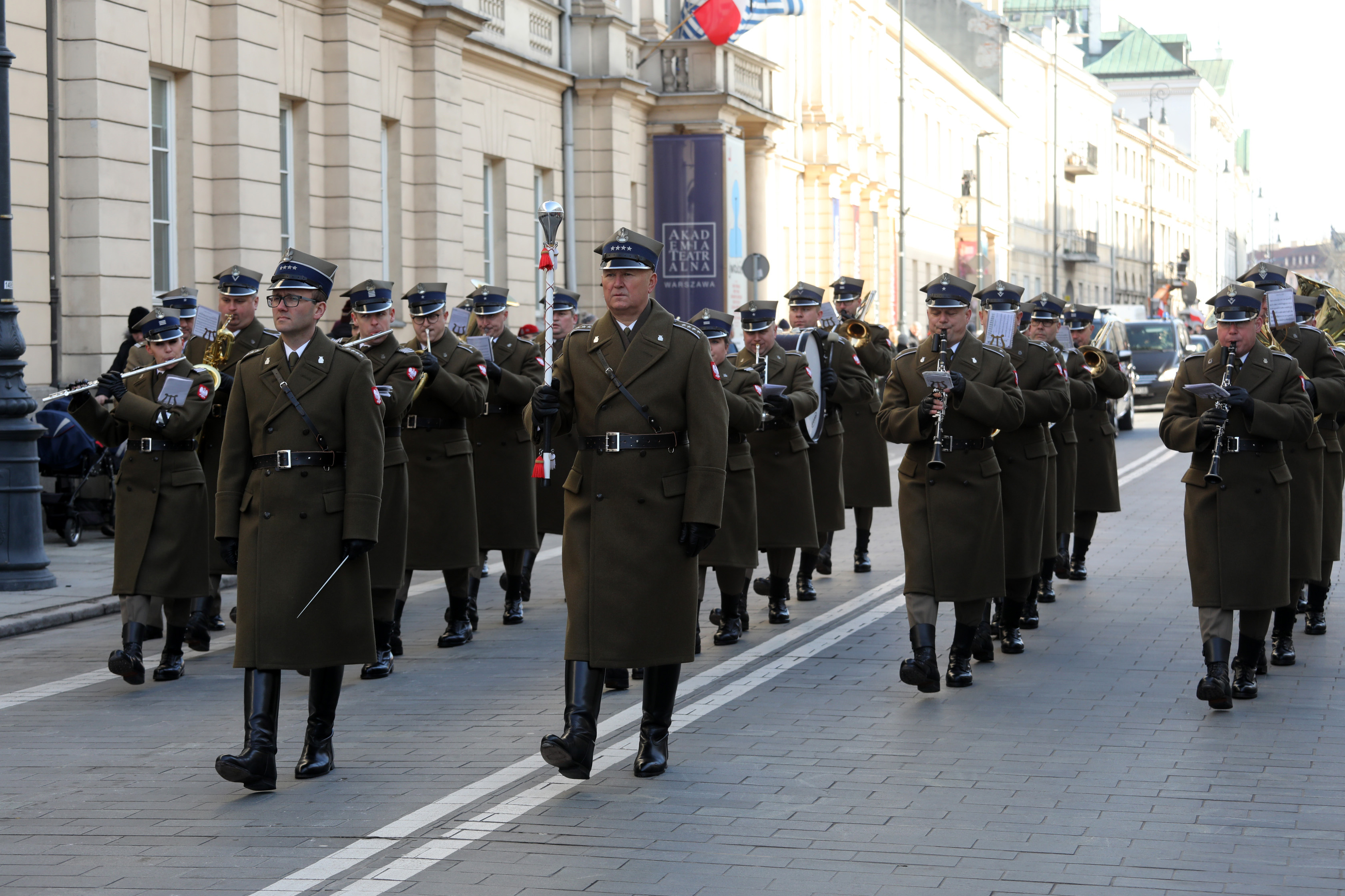 The last way is late Jan Olszewski. Funeral ceremonies of the former Prime Minister of the Republic of Poland with the participation of, among others Speaker of the Sejm and parliamentarians.